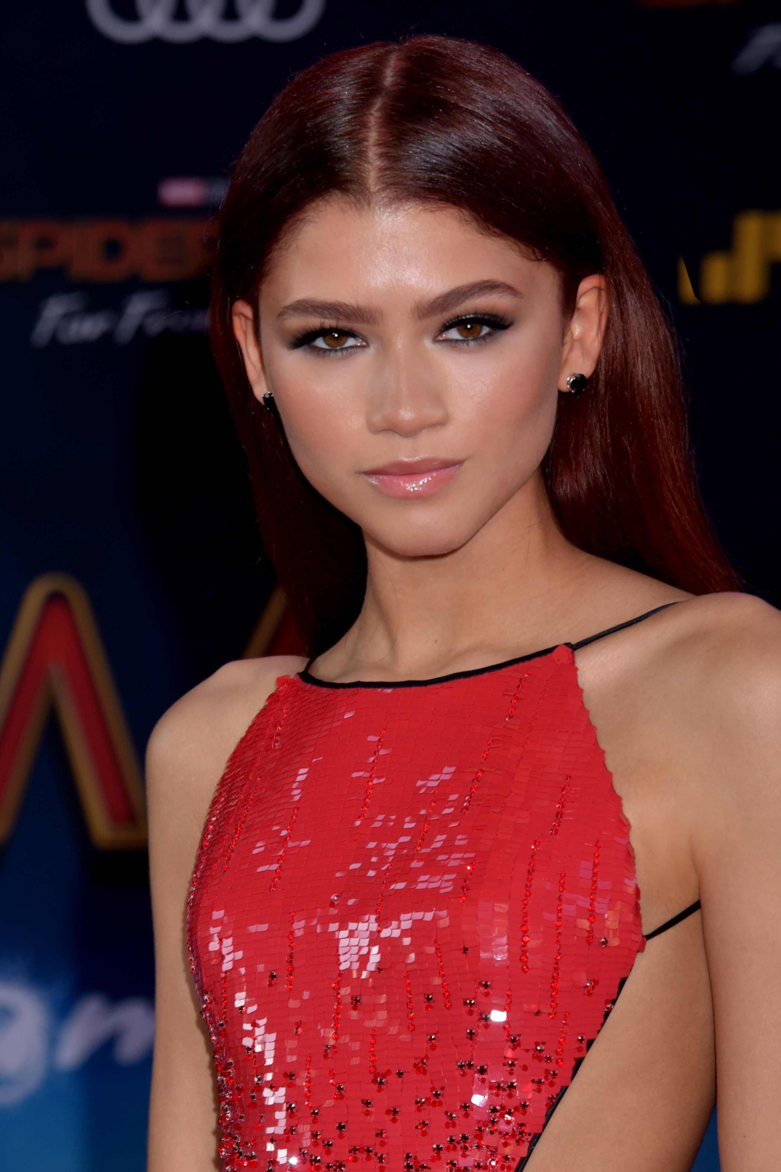 Zendaya arrives for the Premiere of "Spider-Man: Far From Home" in Hollywood California on June 26, 2019 - Photo by Glenn Francis of